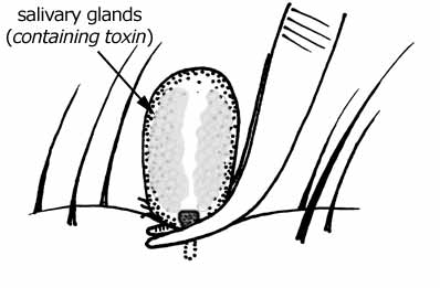 Removal of the tick. By compressing the mouthparts (and not the body of the tick) one avoids squeezing more allergens, toxins and infectious micro-organisms into the host.